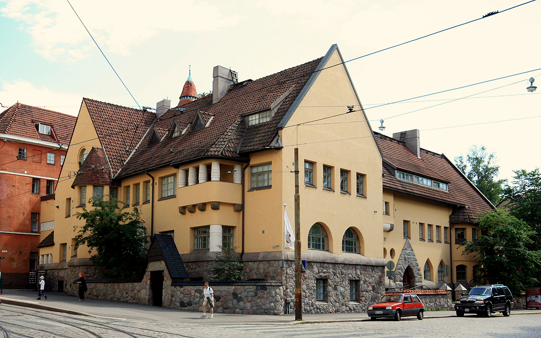 Eira Hospital, Helsinki. Designed by Finnish architect Lars Sonck in the Nordic Medieval-Gothic revival National Romantic style and and Jugend—Art Nouveau style style, and built 1905.